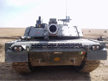 Carro armato ariete, italian army